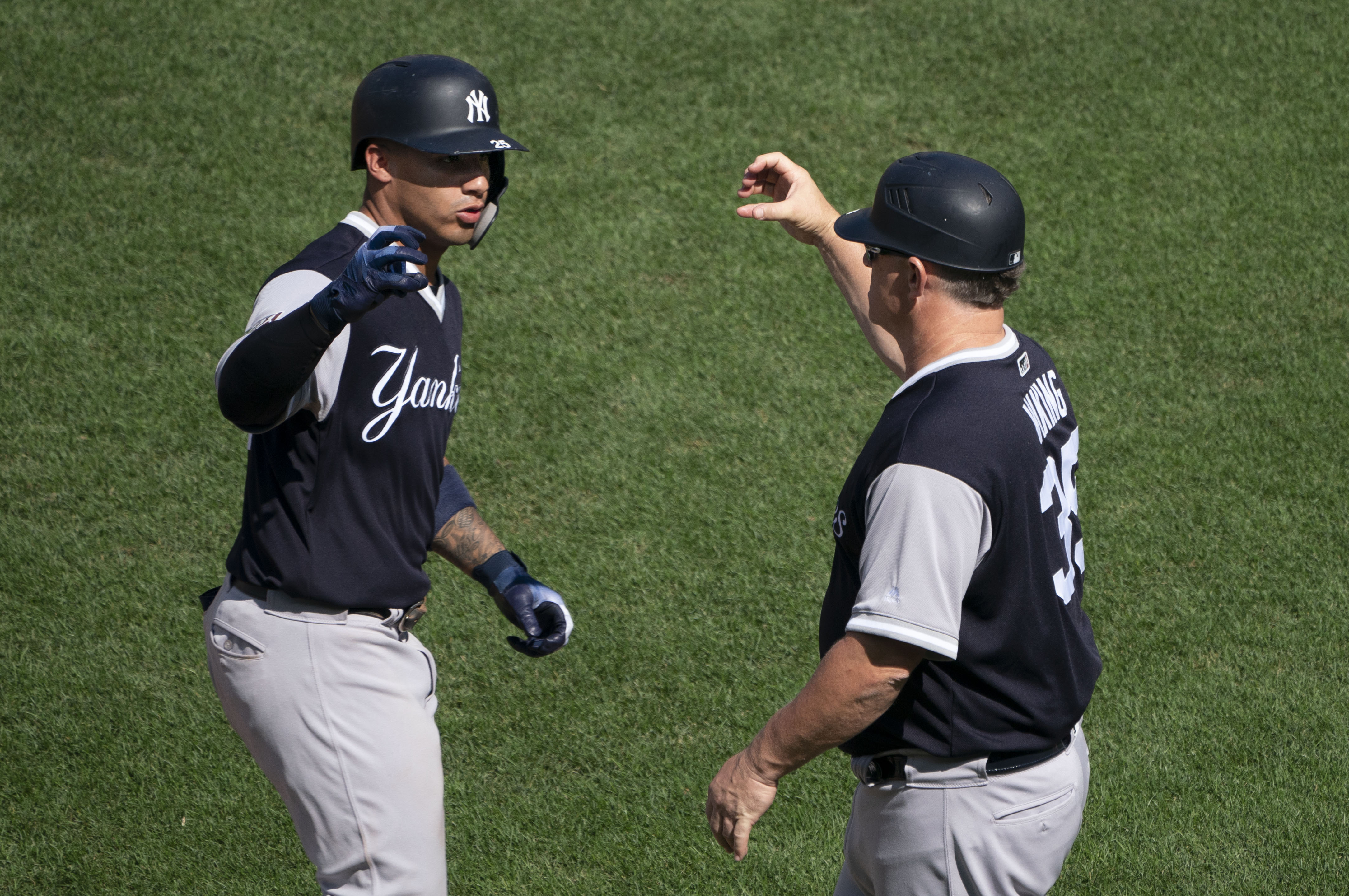 Gleyber Torres (left) and third base coach Phil Nevin of the New York Yankees during a 2018 game at Camden Yards in Baltimore against the Baltimore Orioles.